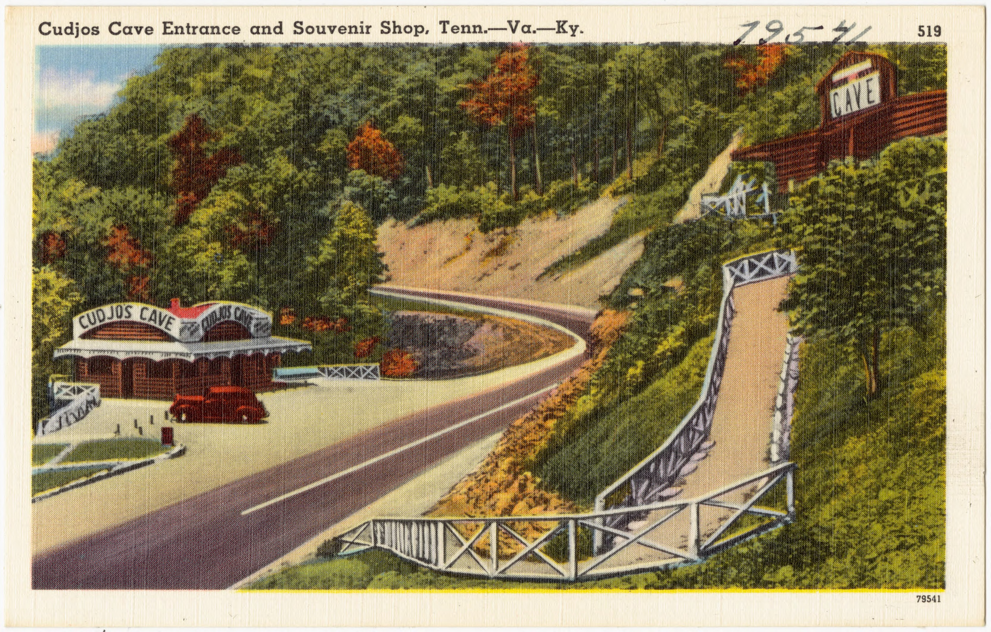 Title: Cudjos Cave entrance and souvenir shop, Tenn. -- Va. -- Ky. Places: Cumberland Gap Notes: Title from item. Extent: 1 print (postcard) : linen texture, color ; 3 1/2 x 5 1/2 in. Accession #: 06_10_019402